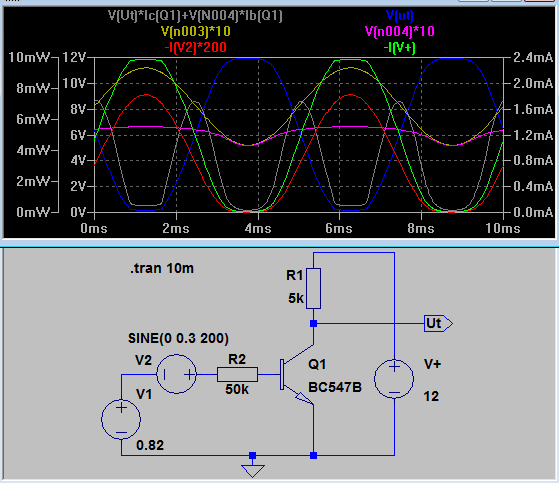 NPN transistor as a basic amplifier